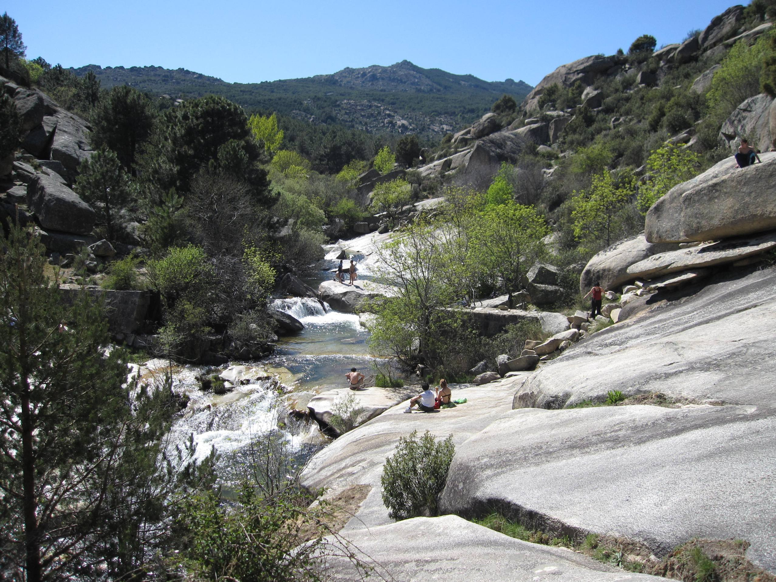 Manzanares river in La Pedriza (Guadarrama mountain range, central Spain).